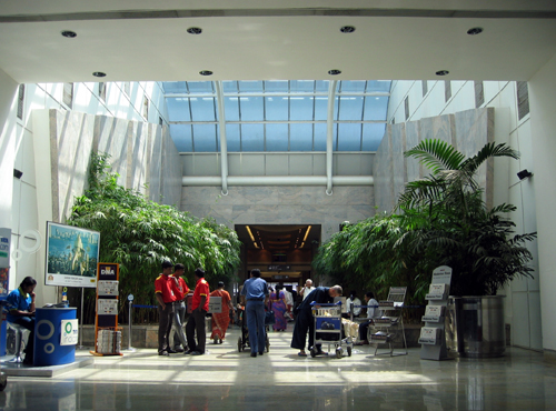 Terminal 1B Departures.